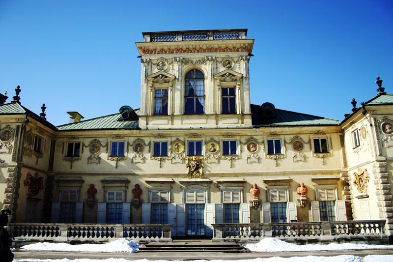 Wilanow (Poland) form Marek und Ewa Wojciechowscy form with permission of the authors